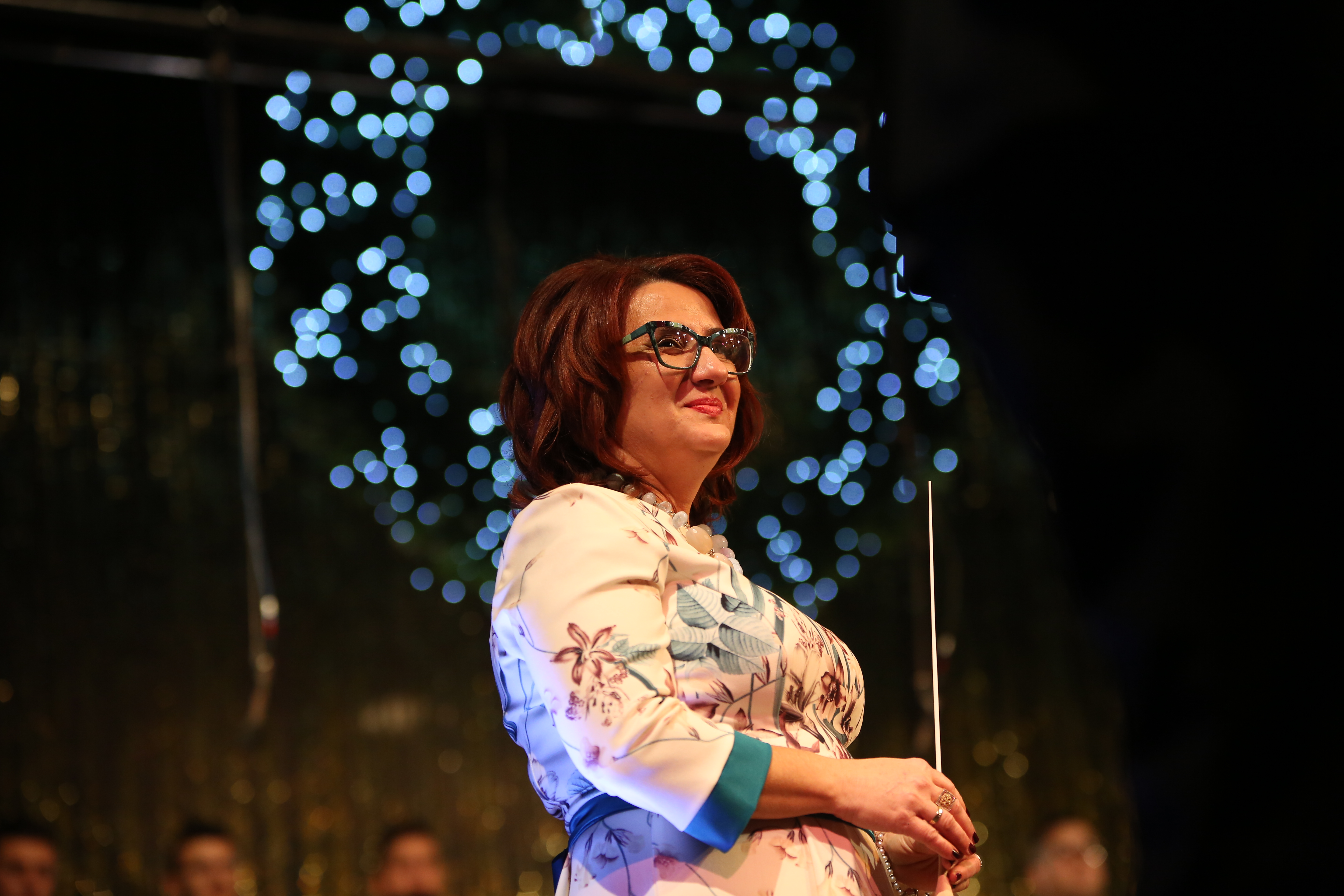 Biljana Jeremic, New Year Concert 2018